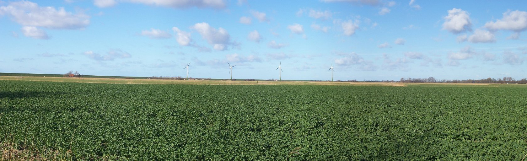 Typical Butjadingen view near Tossens in the district of Wesermarsch, Germany.